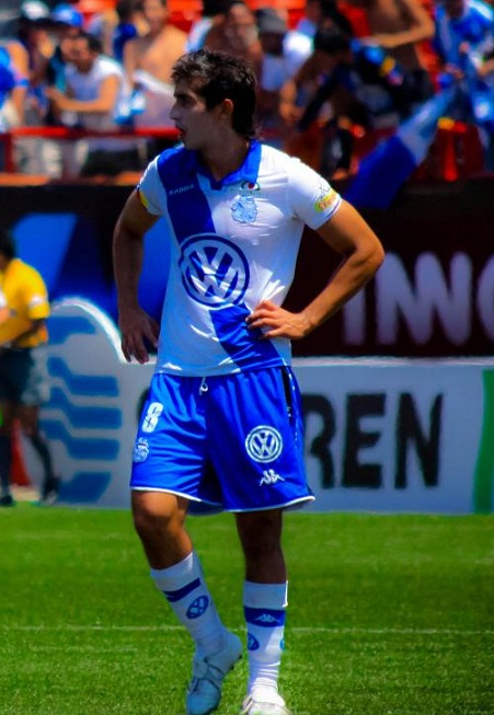 Puebla player Alan Zamora